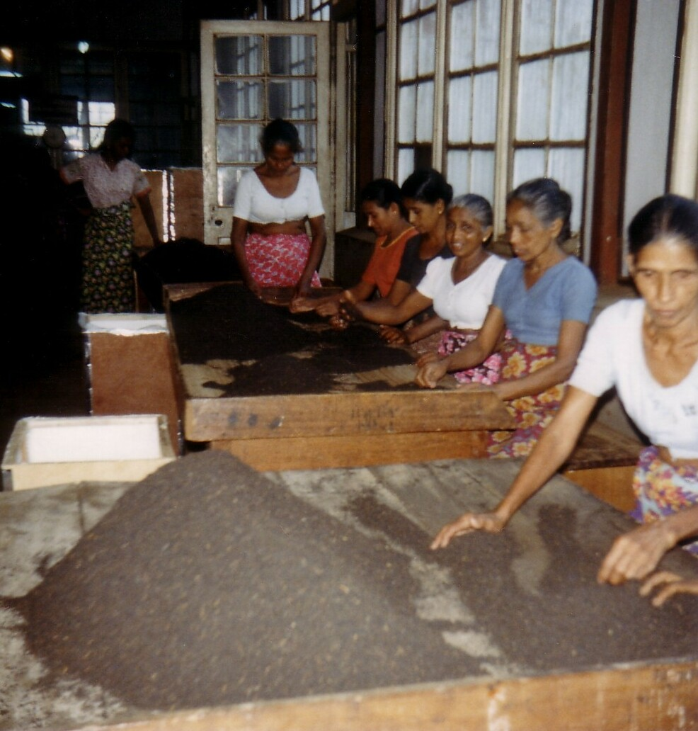 Tea assortment (nearby Kandy) in Sri Lanca